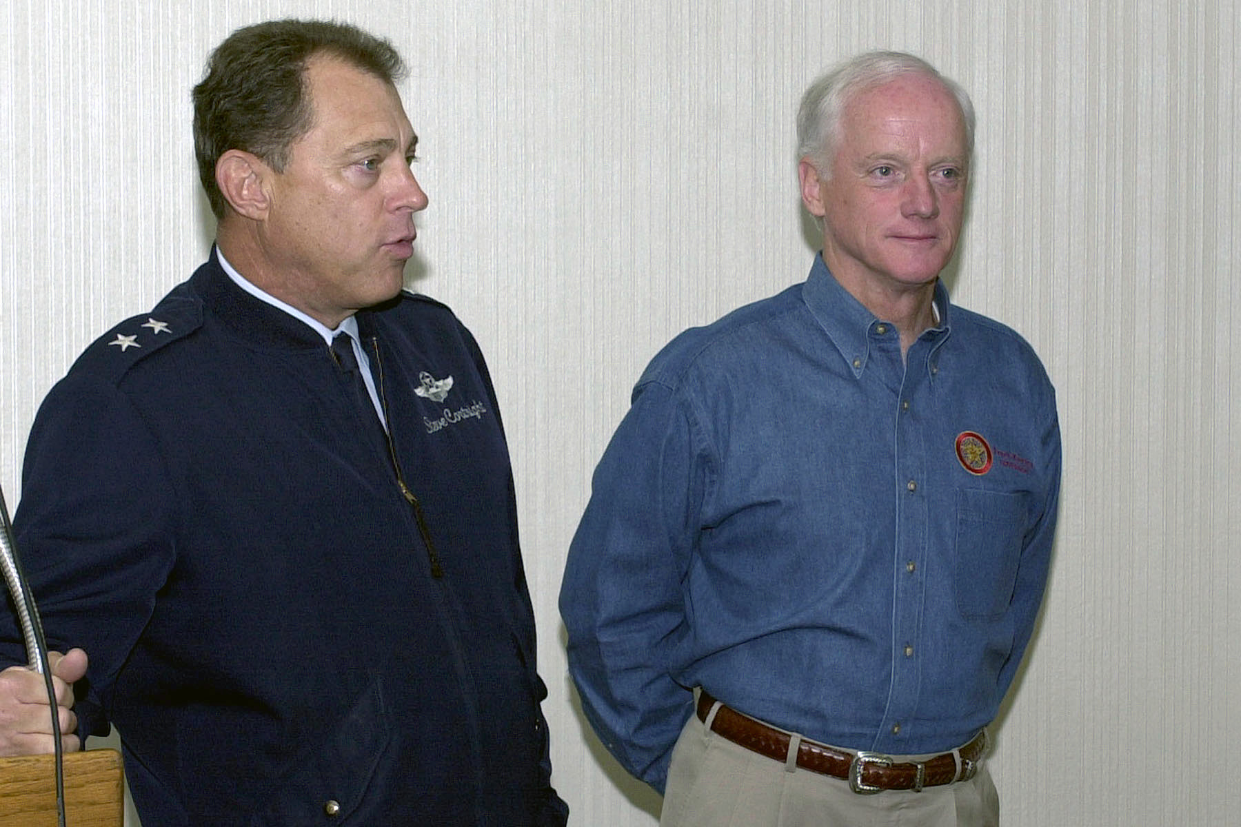 The Adjutant General for the state of Oklahoma, Major General (MGEN) Stephen P. Cortright, USAF, (left) addresses member of the, 138th Fighter Wing, Tulsa Air National Guard, Tulsa OK, at their annual strategic planning conference. Governor Frank Keating, Governor for the state of Oklahoma, accompanies MGEN Cortright, 10/20/2001